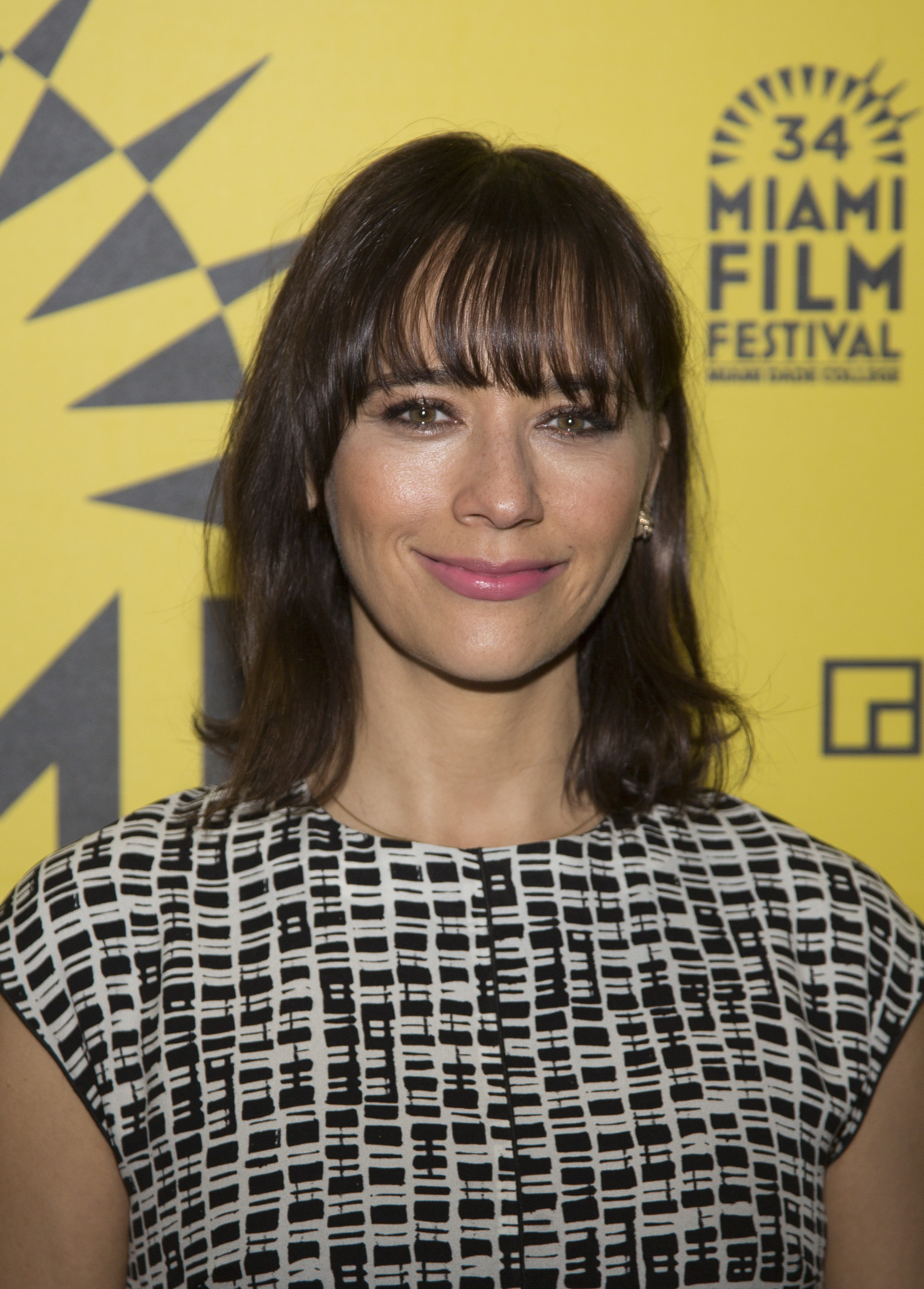 Rashida Jones at the 2017 Miami International Film Festival presentation of Hot Girls Wanted: Turned On at Regal Theater on March 7, 2017